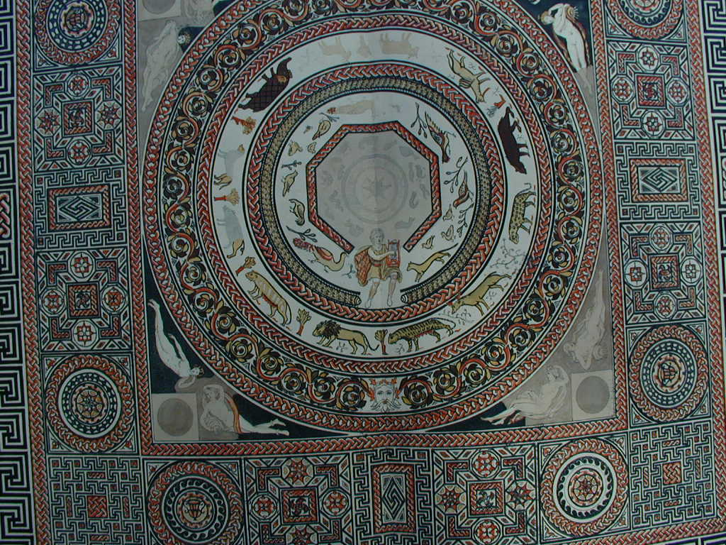 Orpheus mosaic found in the Roman villa at Woodchester